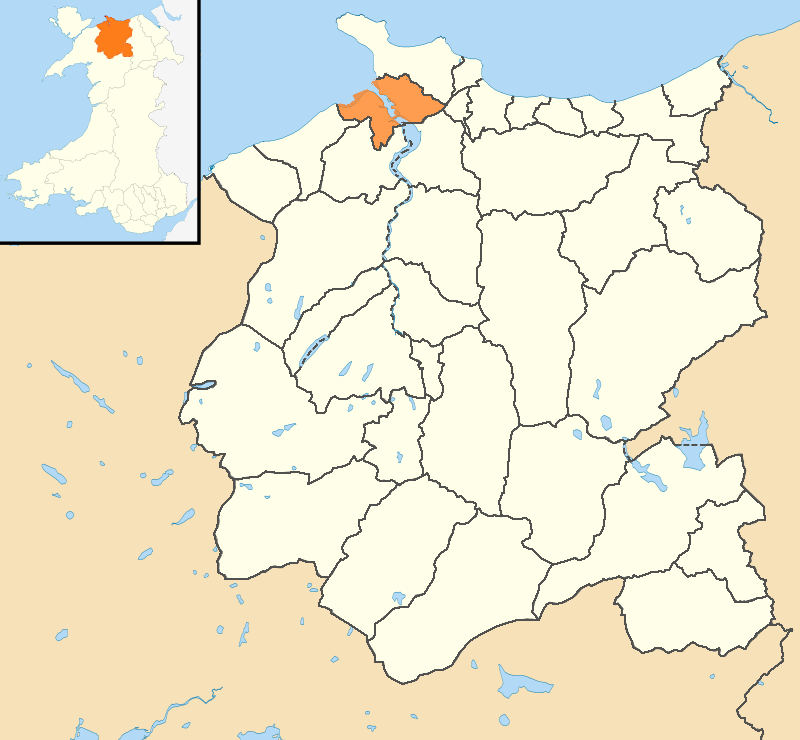 Location map of the community (civil parish) of Conwy, located either side of the River Conwy in Conwy County Borough, Wales. The community also includes the towns of Deganwy and Llandudno Junction.